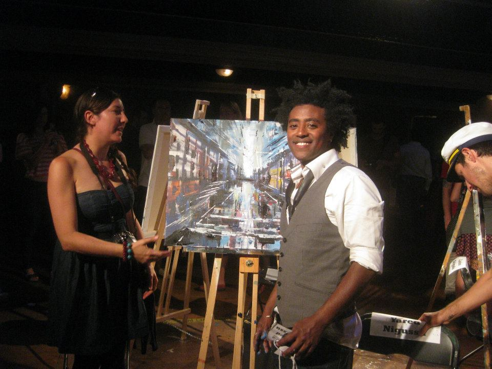 Yared Nigussu, winner of the 2012 Art Battle National Championship, and his wife with the winning painting.